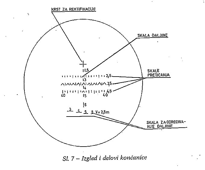 CN-6 aimsight of the 90mm M79 "Osa" rocket launcher